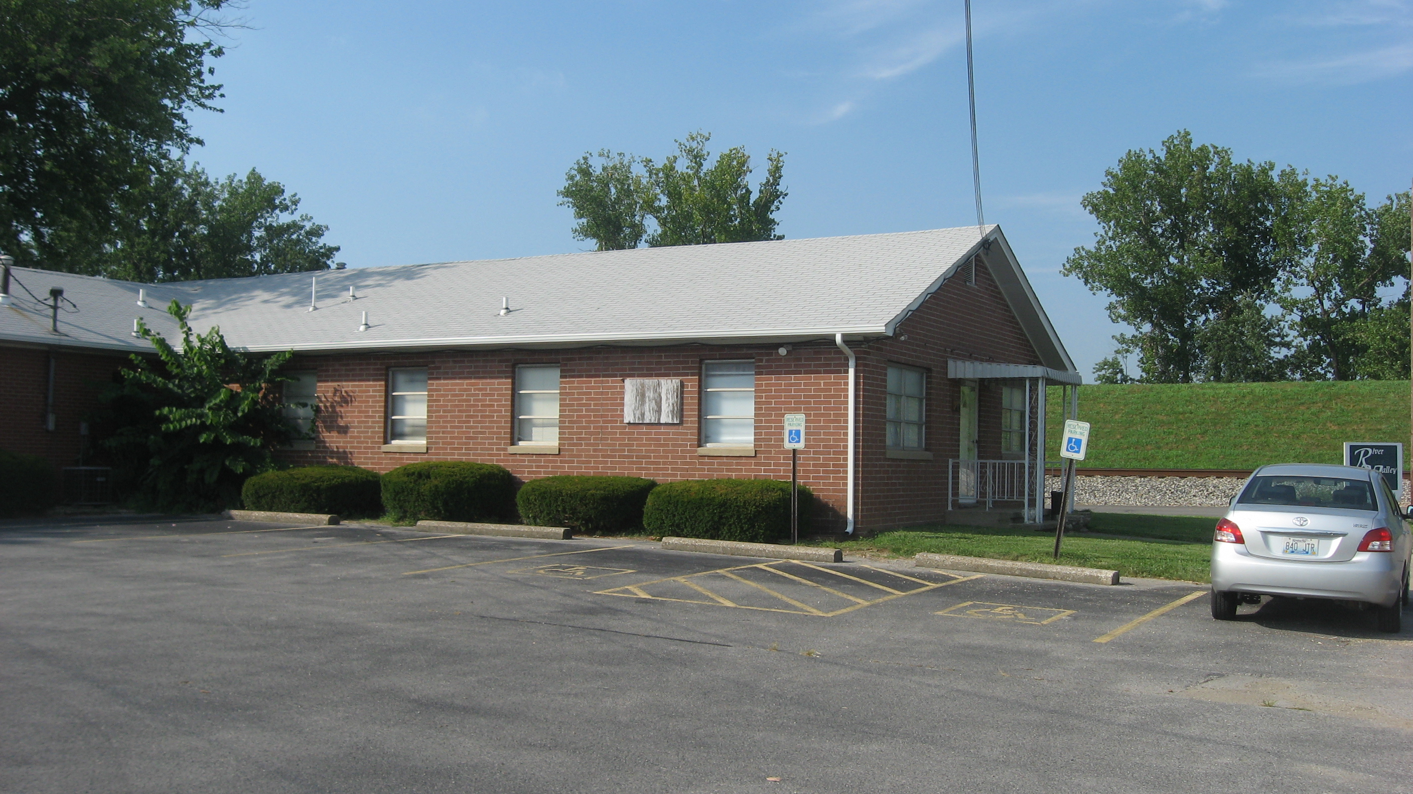 Part of River Valley Behavioral Health, located at 107 Harrison Street in Hawesville, Kentucky, United States. It occupies the site of the former Immaculate Conception Church. Built in 1860, it was listed on the National Register of Historic Places in 1975; it has been destroyed, but it has not been removed from the Register.